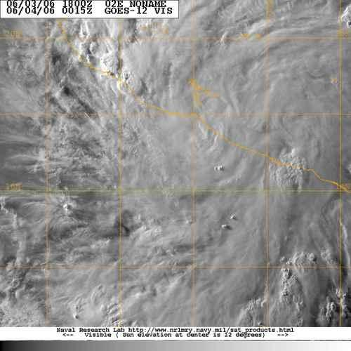 Satellite imagery of Tropical_Depression_Two-E_2006.JPG of 2006.